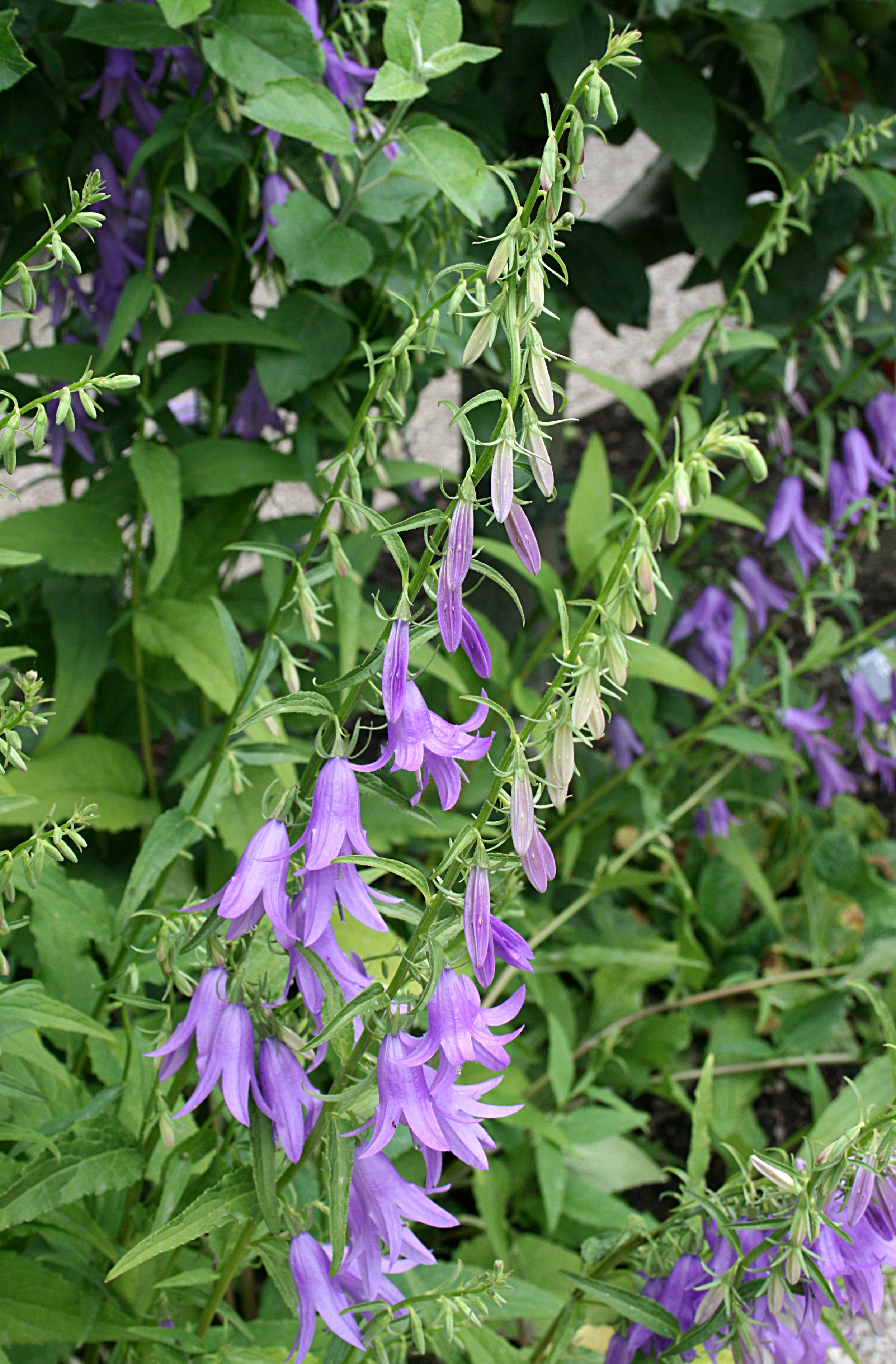 Rampion Bellflower